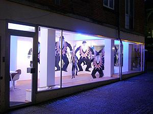 Sergei Sviatchenko. Senko studio, Henrik Vibskov, 2005